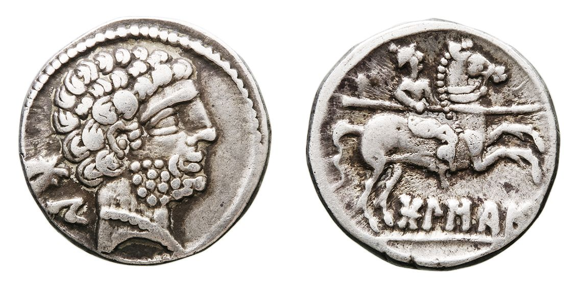 Silver denarius minted in Bolskan, an ancient Iberian city located on the site now occupied by modern Huesca, Spain. The reverse shows a horseman with a spear and a legenda that says , i.e. "BoLSKaN" in Iberian script; the obverse, a bearded head with a short form of the name of the city: "BoN".